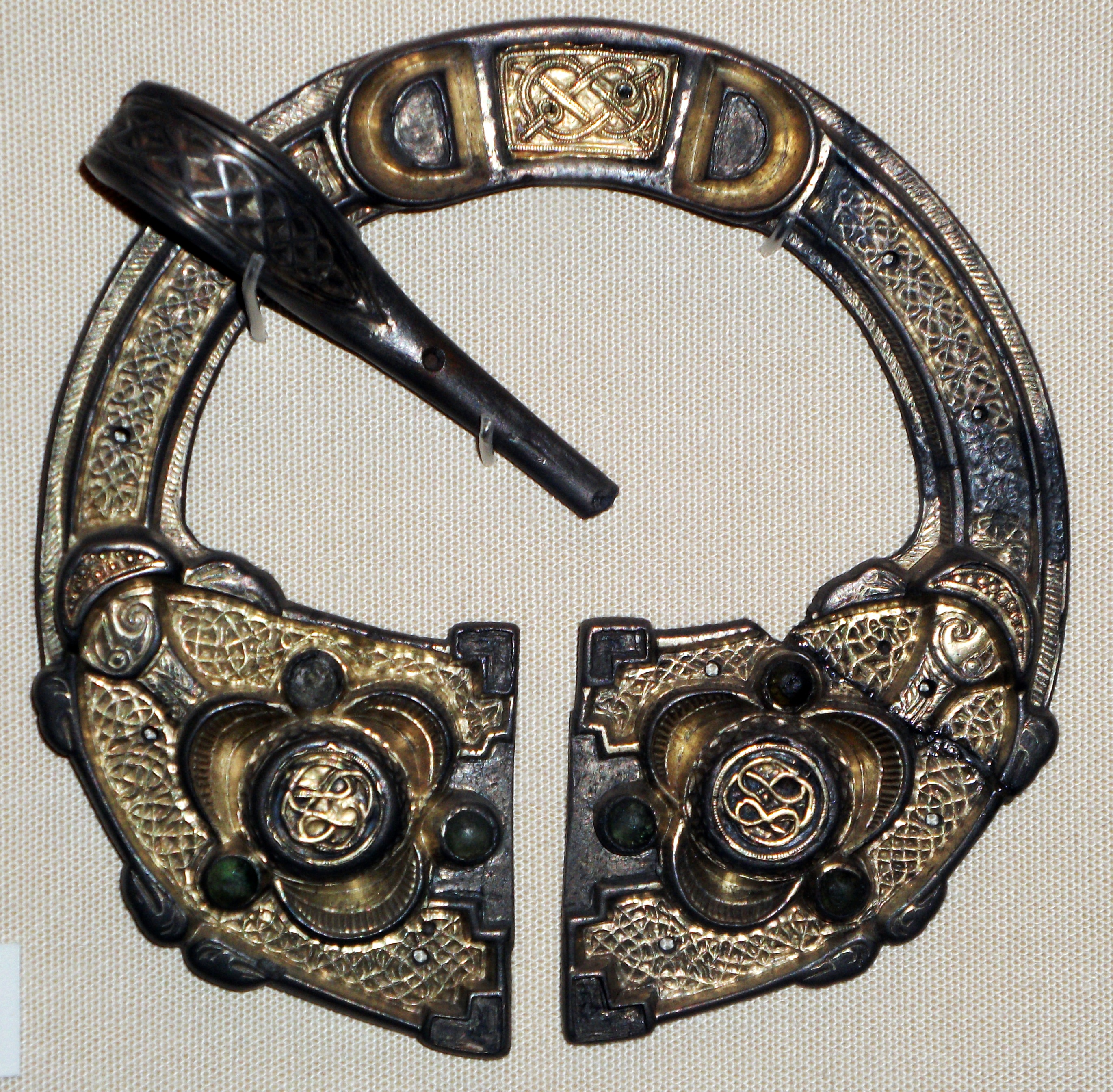 The Breadalbane Brooch, British Museum, PE 1919,1218.1 BM website